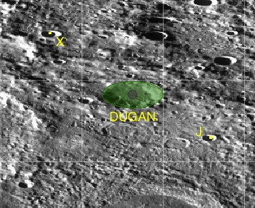 Part of the chart LAC-6 used for the presentation